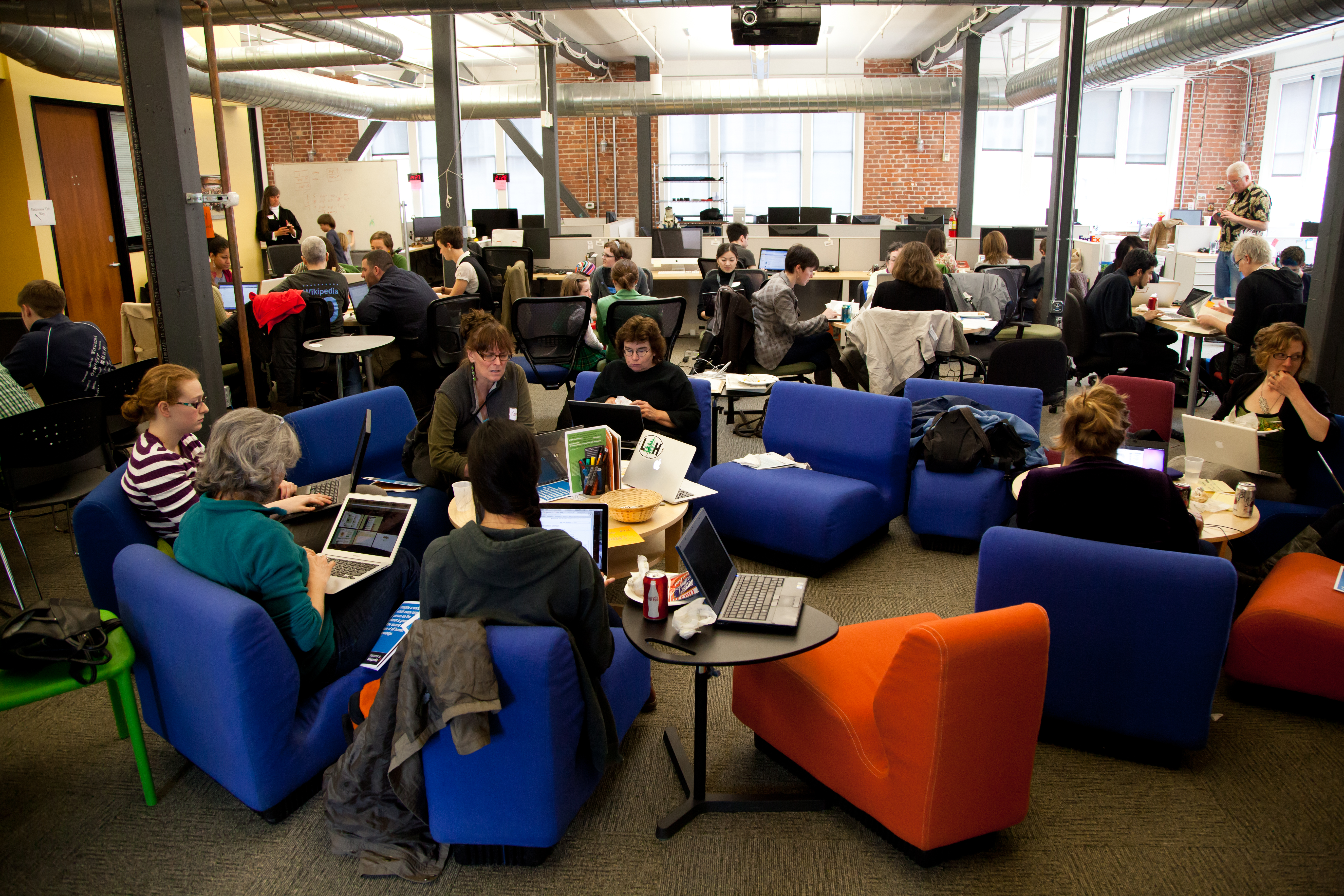 The Wikimedia Foundation hosted a Women's History Month edit-a-thon its San Francisco office on March 17th, 2012.